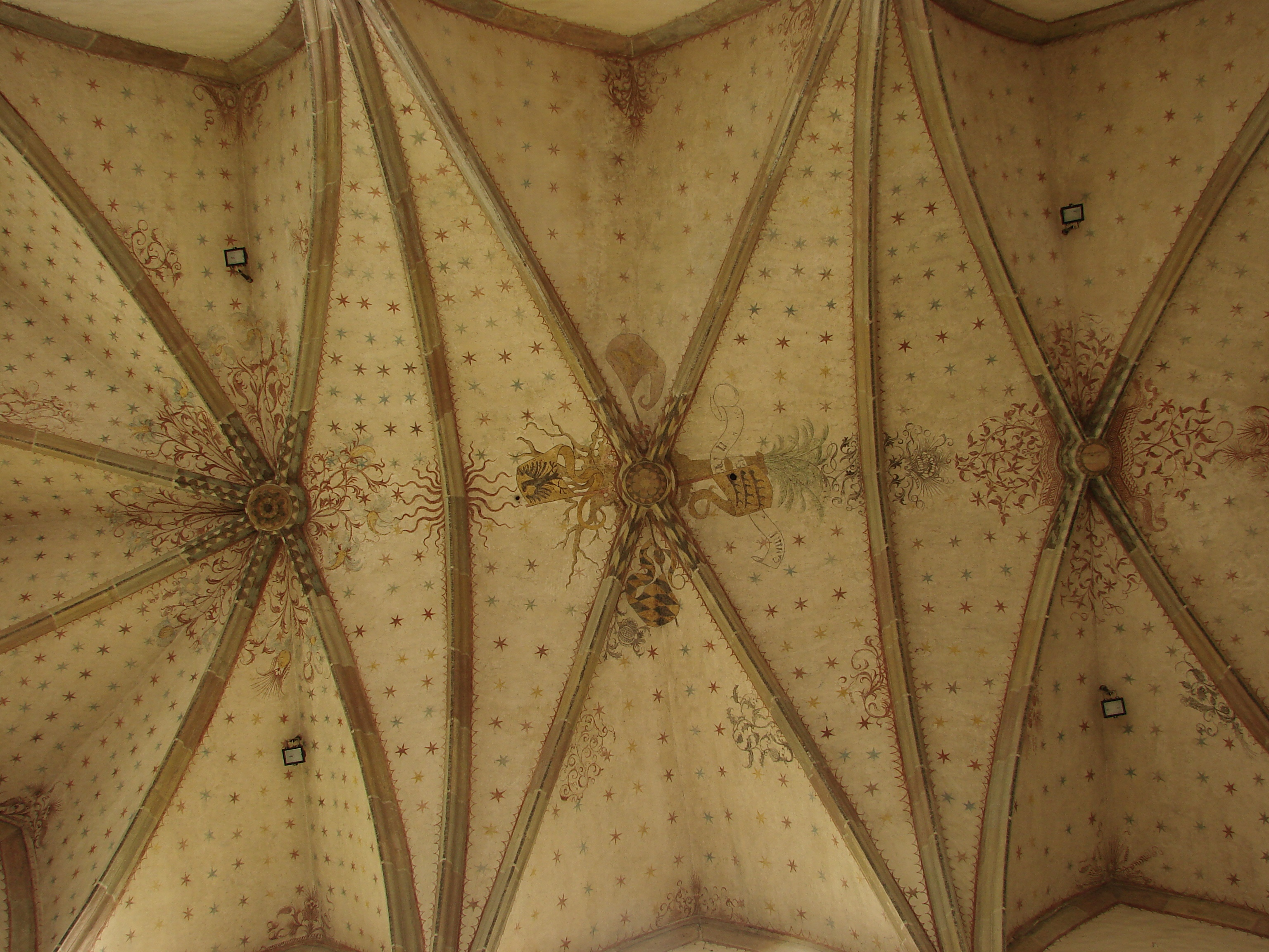 Besigheim, Germany, vault in the choir of the protestant town church